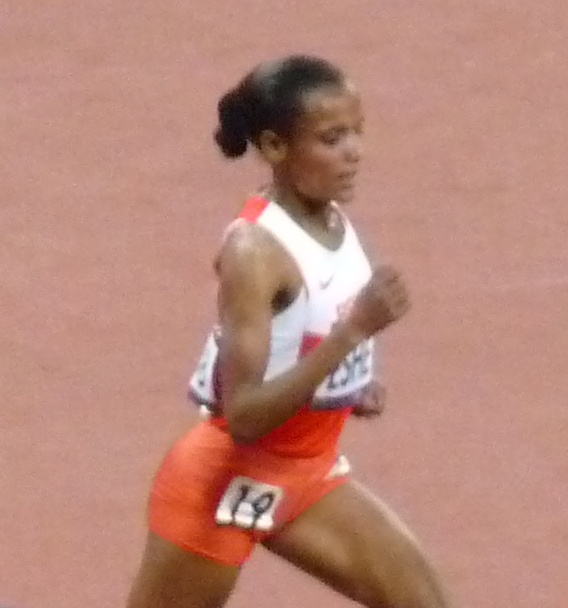 Women's 10k Final, Shitaye Eshete